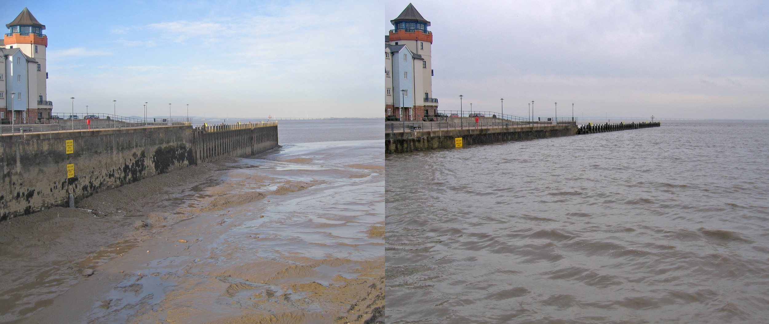 Derived from File:PortisheadDocks LowTide.JPG and File:PortisheadDocks NearHighTide.JPG